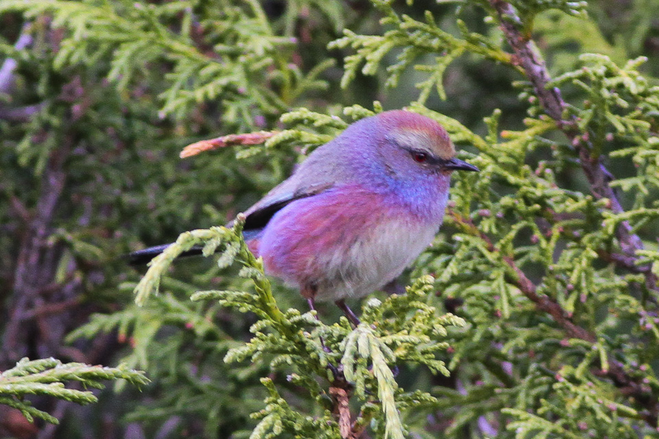 White-browed Tit-warbler Leptopoecile sophiae. Tien Shan Observatory, Almaty.